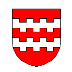 Old coats of arms of the Counts of Berg (until 1288). (Note: The file in the English Wikipedia shows the arms of Quadt-Wickrath. This is however the same than those of the house of Berg. See for instance: [1])